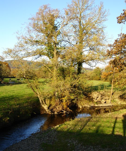 Afon Cain south of Llanfechain The river meanders along this broad-bottomed valley and has carved out a large pool on the next bend but there were too many trees to photograph it well.